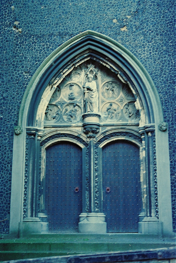 Entrance at the foot of the tower of St Paul's parish church, West Street, Brighton, Sussex